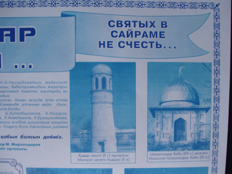 This is a picture taken of a poster hanging in the Sayram Museum in Sayram city, South Kazakhstan Oblast'. The poster was self-published, and verbal permission given to photograph the poster.